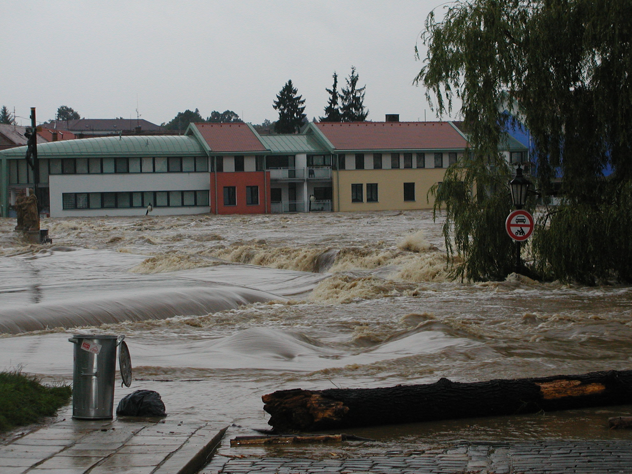 Otava river by Flood in 2002, Písek district, Czech Republic. Picture was taken in the Kollárova street (49°18'45.96"N,14°8'47.45) on 13-08-2002.